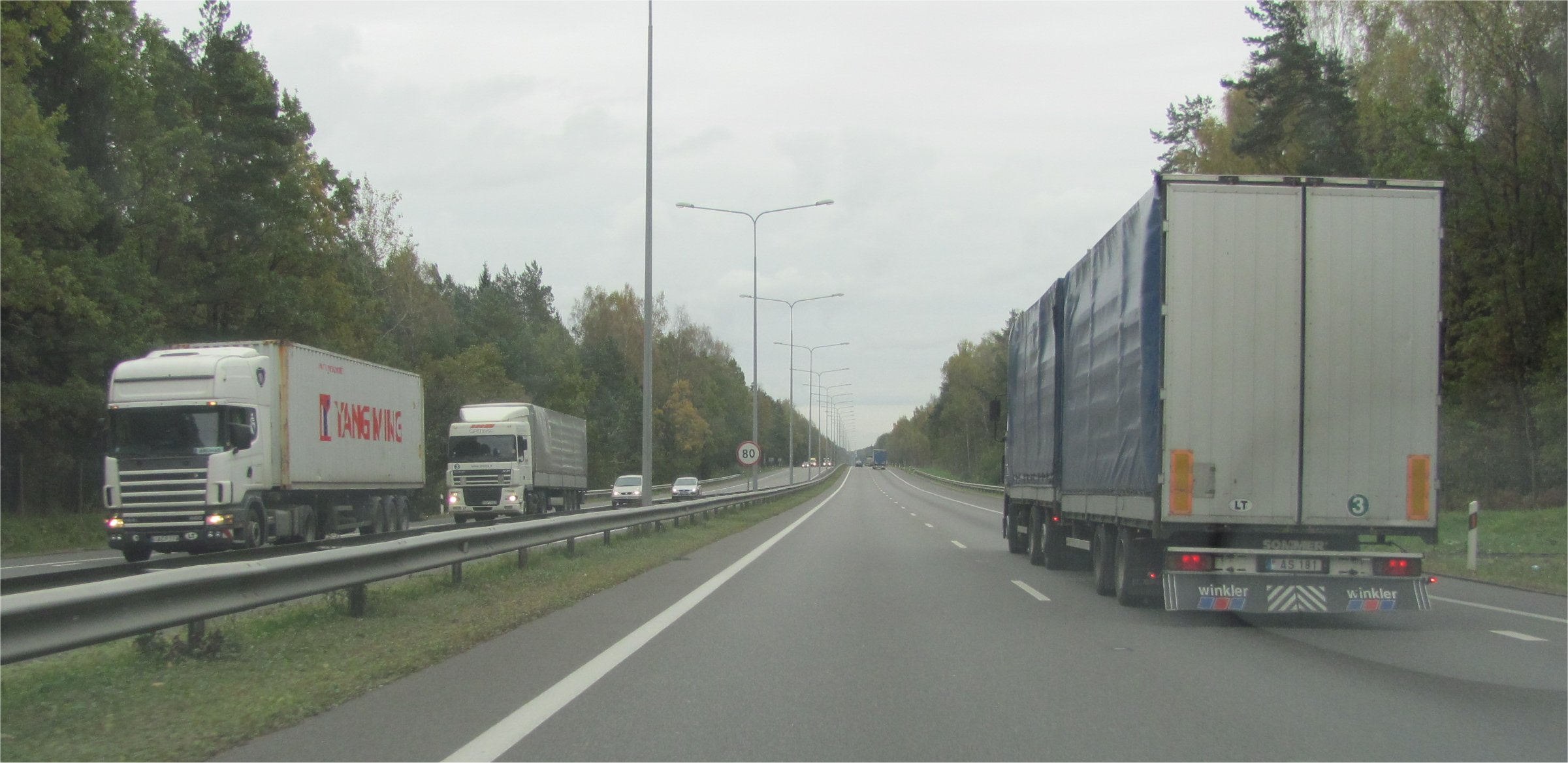 View from highway A1 (E 85) between Kaunas-Vilna, line towards Vilna. This is one of the main highways in Lithuania, leading from Vilna not just to Kaunas, but also towards e.g. the port city of Klaipeda.